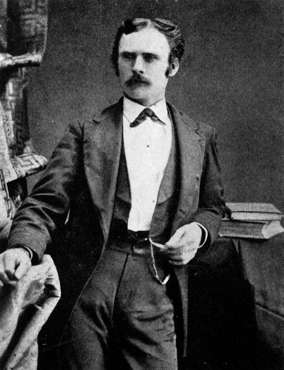 Portrait of Henry T. Hazard (1844-1921) — Mayor of Los Angeles from 1889-1892. Historical Notes Hazard was city attorney before becoming mayor, and was later a state legislator. He had a law passed that required the City Treasurer to deposit public funds. Oil discoveries within the city had led to an oil boom.